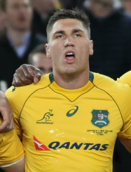 2017.08.19.20.05.51-AUS anthem-0001 2017 Rugby Championship, Bledisloe 1, Australia vs New Zealand, 19th August, ANZ Stadium, Sydney